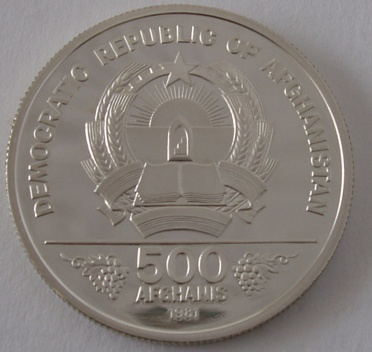 Afghanistan, 500 Afghanis, front, d=27 mm, 925/1000 silver